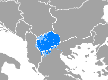 Macedonian language